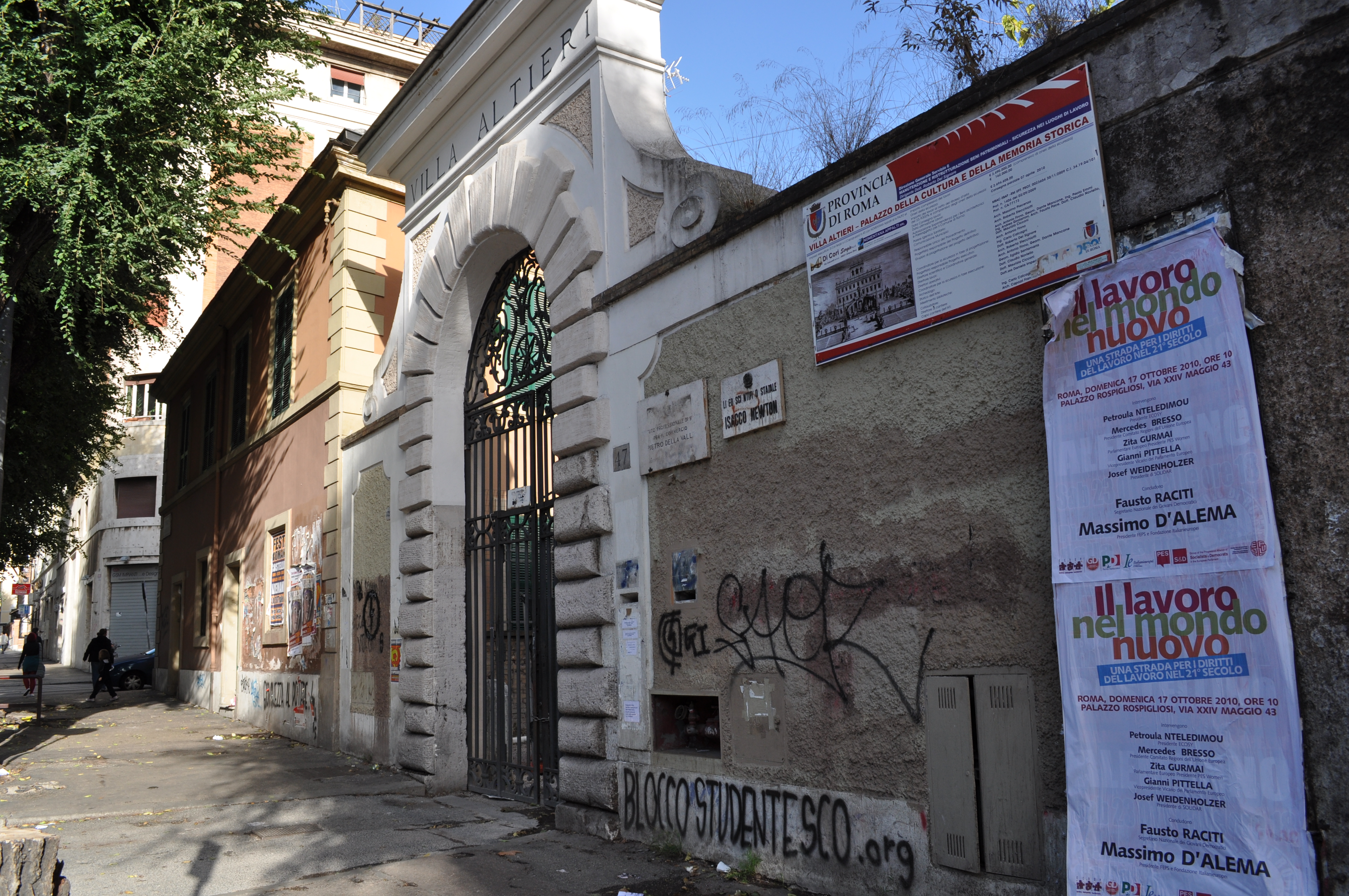 Entrance gate to the area of the Villa Altieri in Rome.